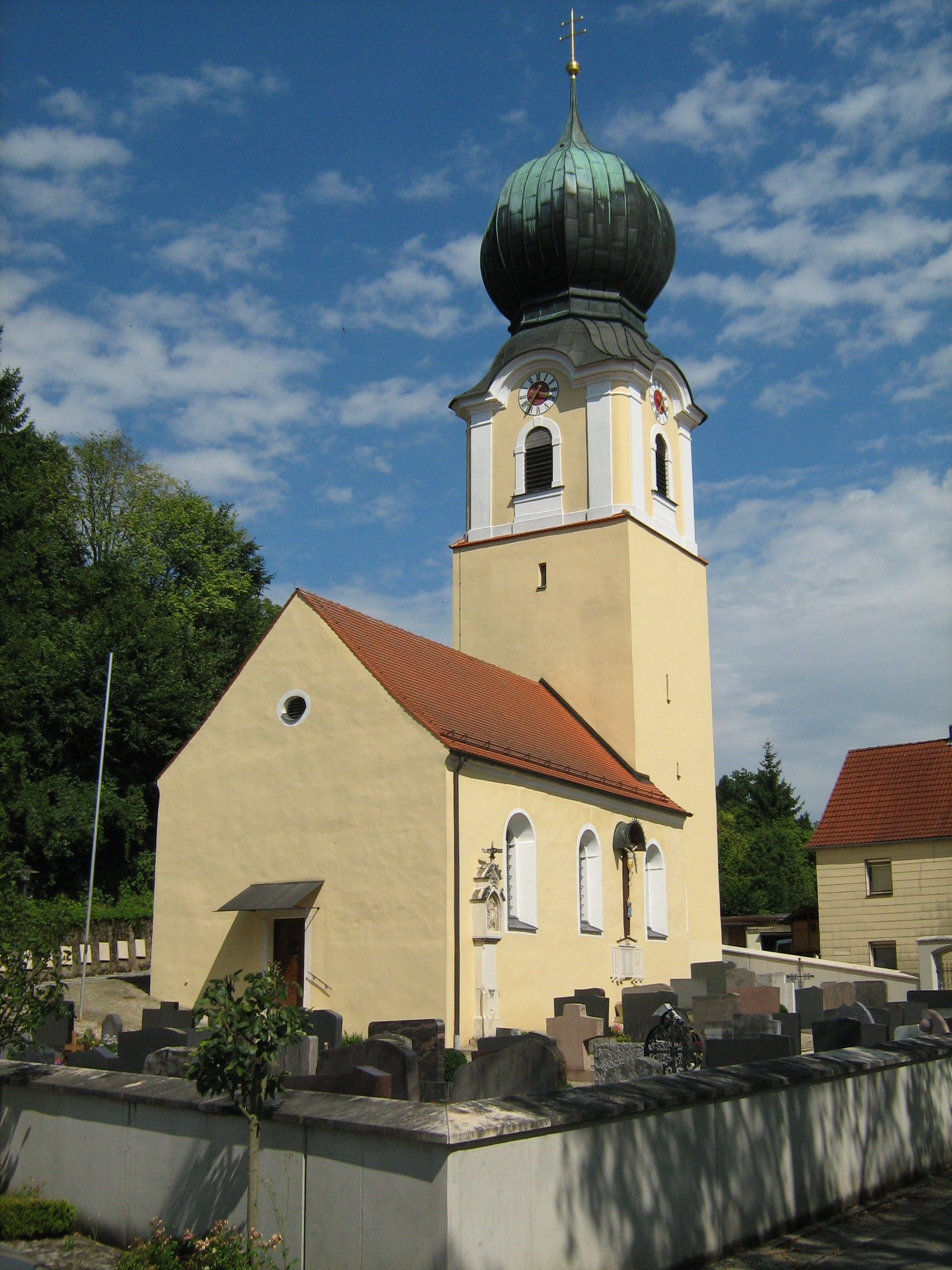 Church in the village Weltenburg close to Kloster Weltenburg, outside Kelheim in Bavaria, Germany. August 4, 2012.